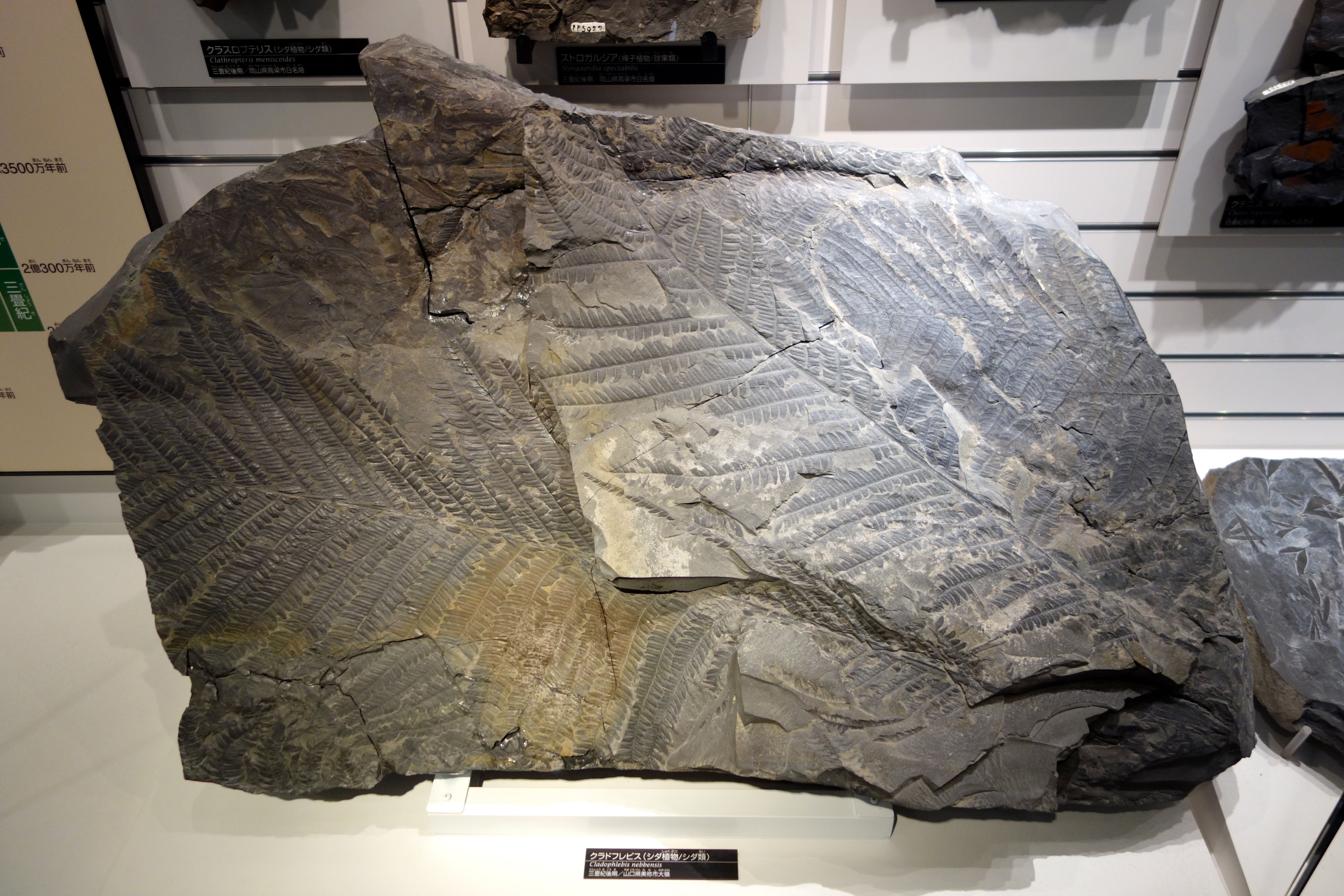 Exhibit in the National Museum of Nature and Science, Tokyo, Japan.